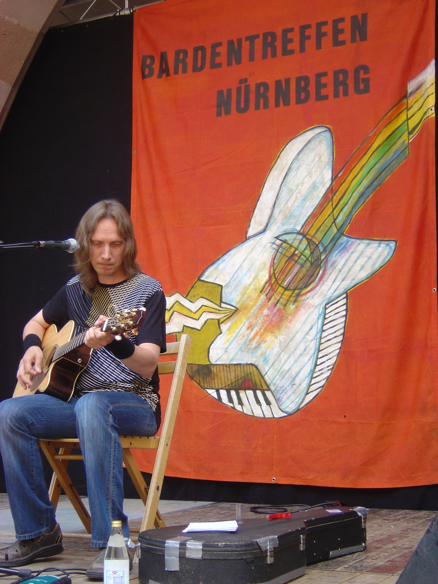 Vadim Kurilev at the Bardentreffen Festival. Nuremberg, Germany. August 2, 2008